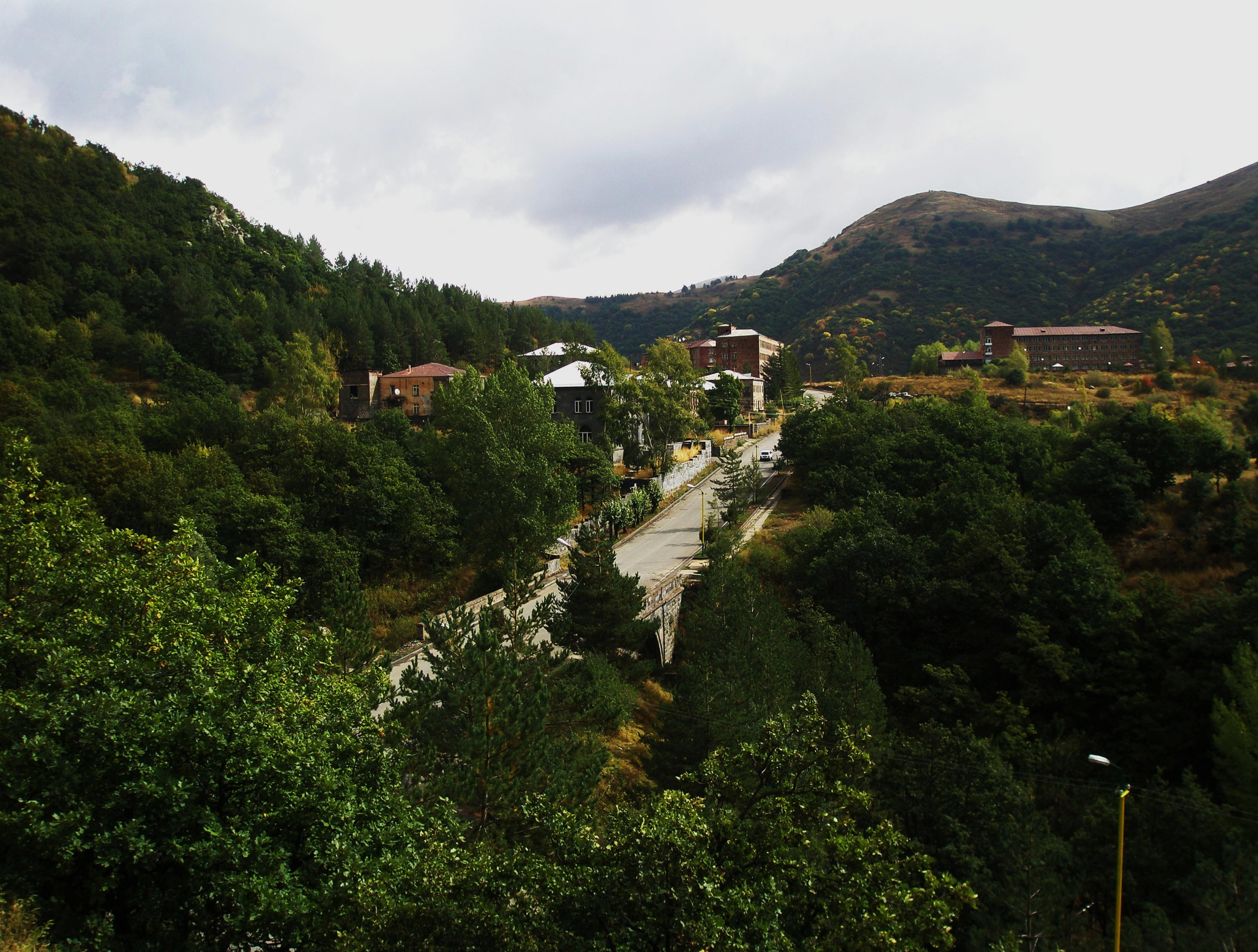 The town of Jermuk